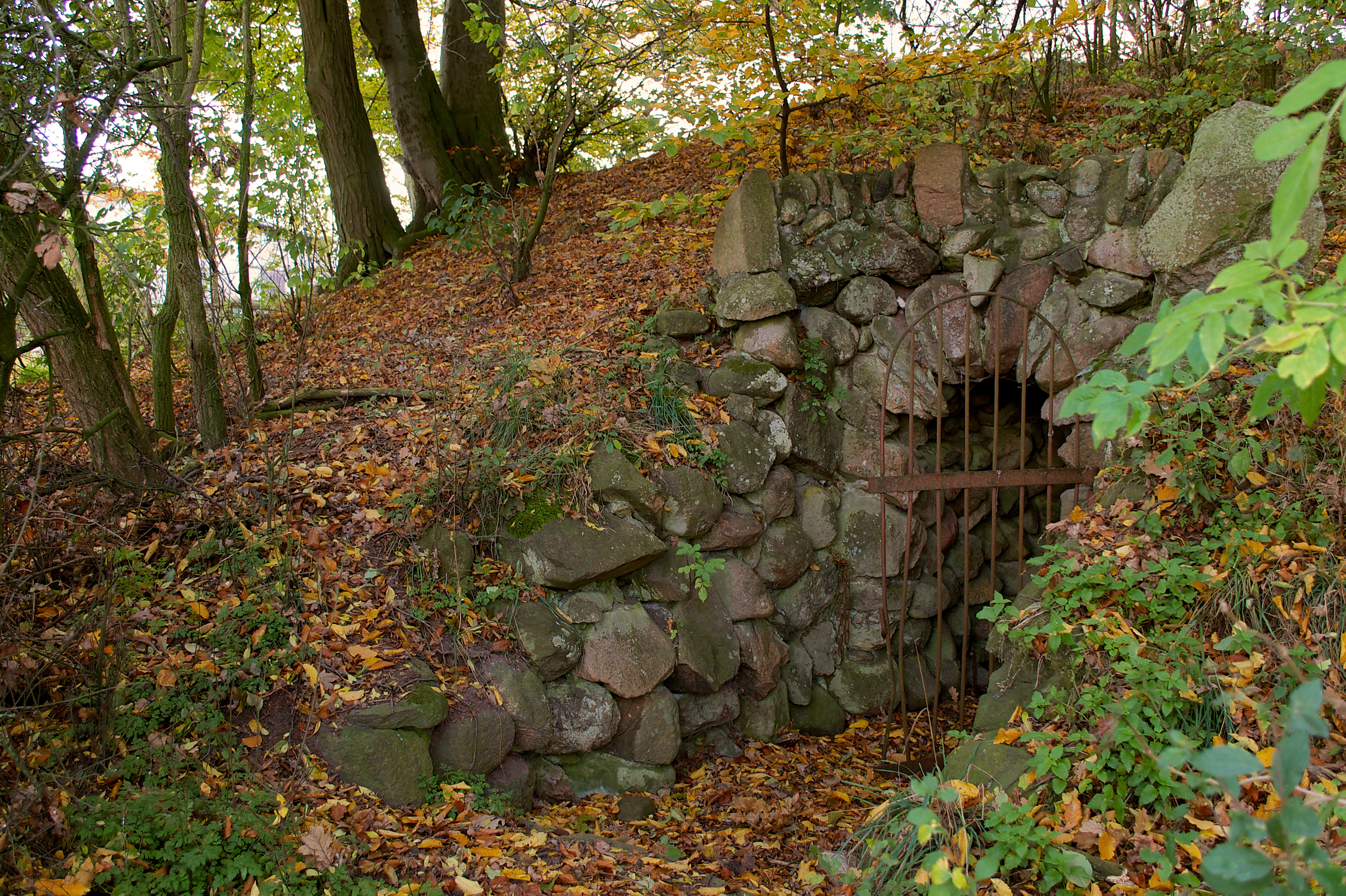 Entrance to the mound north-west of the town Gresse, Mecklenburg Western Pomerania